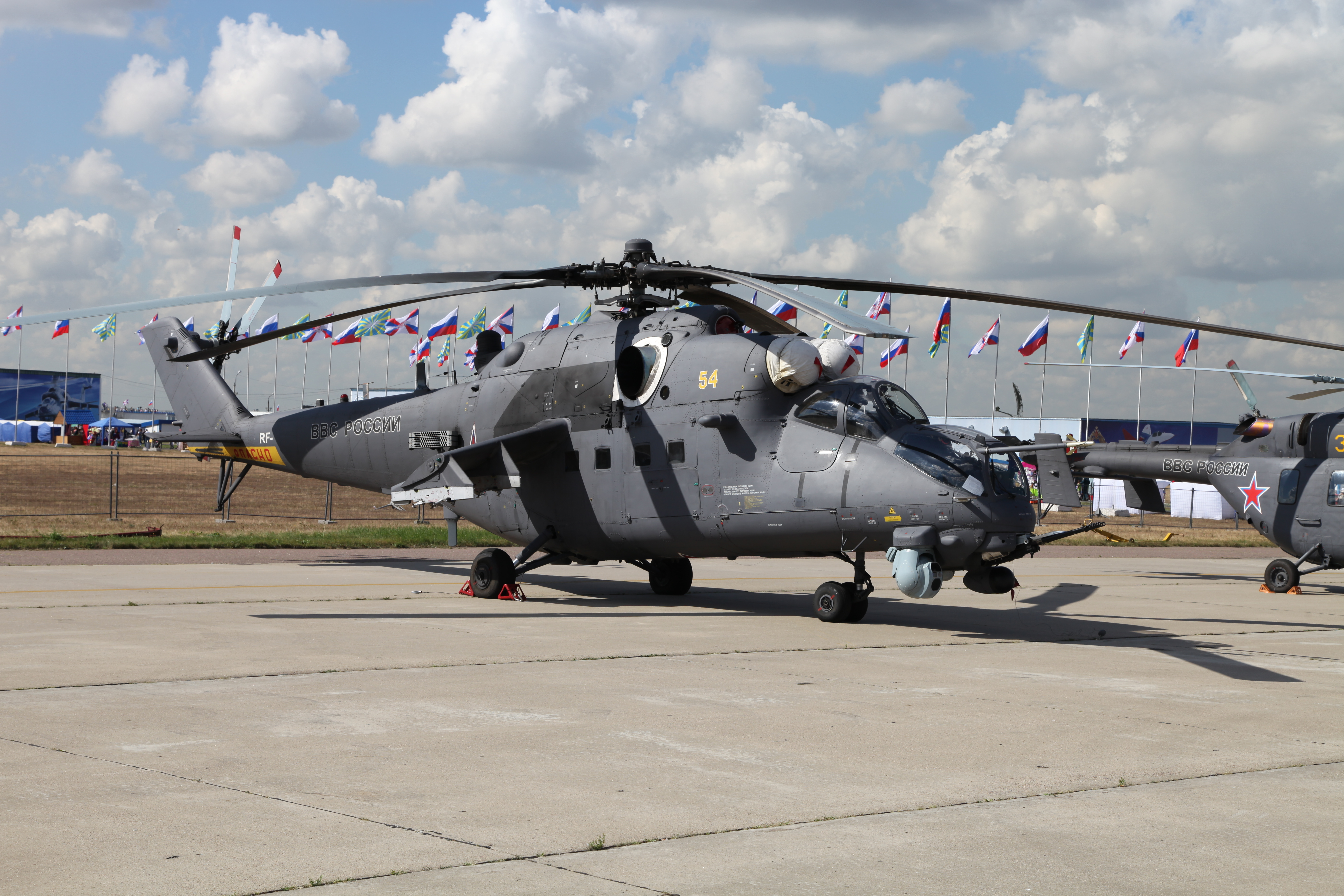 Aircraft at the Celebration of the 100th anniversary of Russian Air Force.